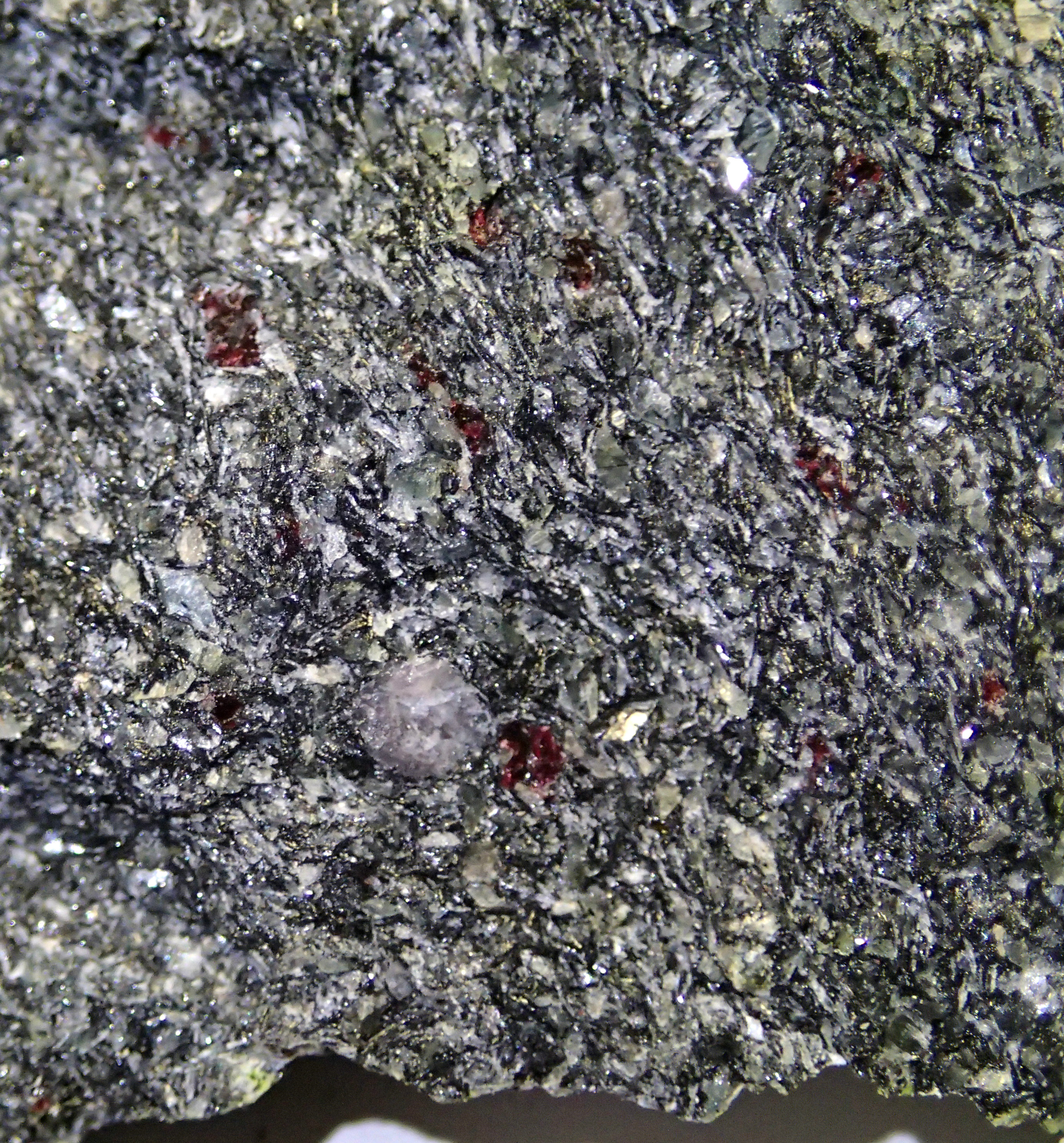 Villiaumitic lujavrite (~1.75 cm across) from the Precambrian of Greenland. This is a rare intrusive igneous rock with a bizarre name: villiaumitic lujavrite. The dark gray rock itself is lujavrite, a variety of nepheline syenite having amphibole, aegirine pyroxene, nepheline, and feldspar. The red spots in the rock are crystals of the the rare halide mineral villiaumite (NaF - sodium fluoride). Geologic unit & age: Illímaussaq Complex (Illímaussaq Intrusion; Illímaussaq Alkaline Complex), late Mesoproterozoic, 1.16 Ga Locality: Kvanefjeld, southern Greenland